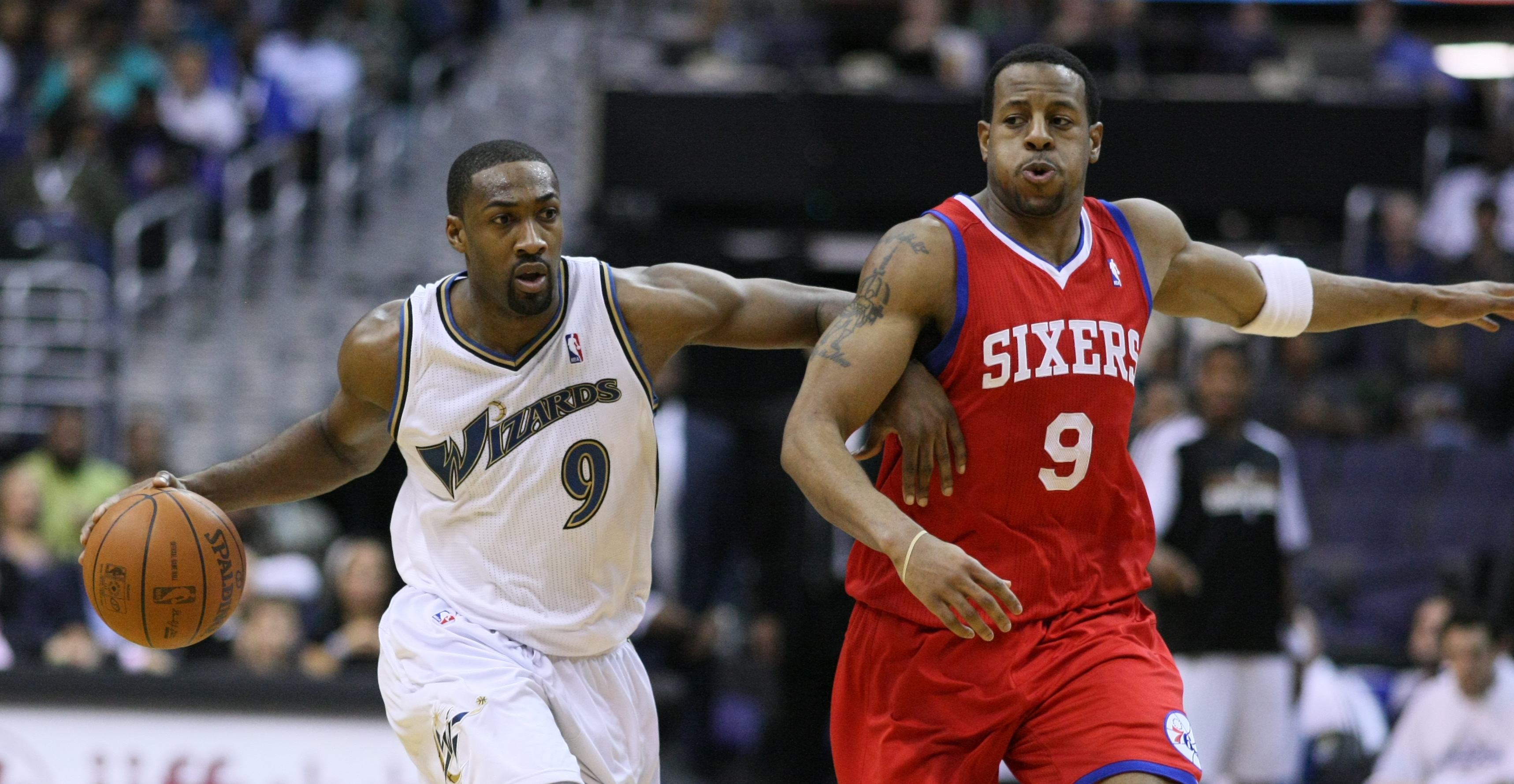 Washington Wizards v/s Philadelphia 76ers November 23, 2010